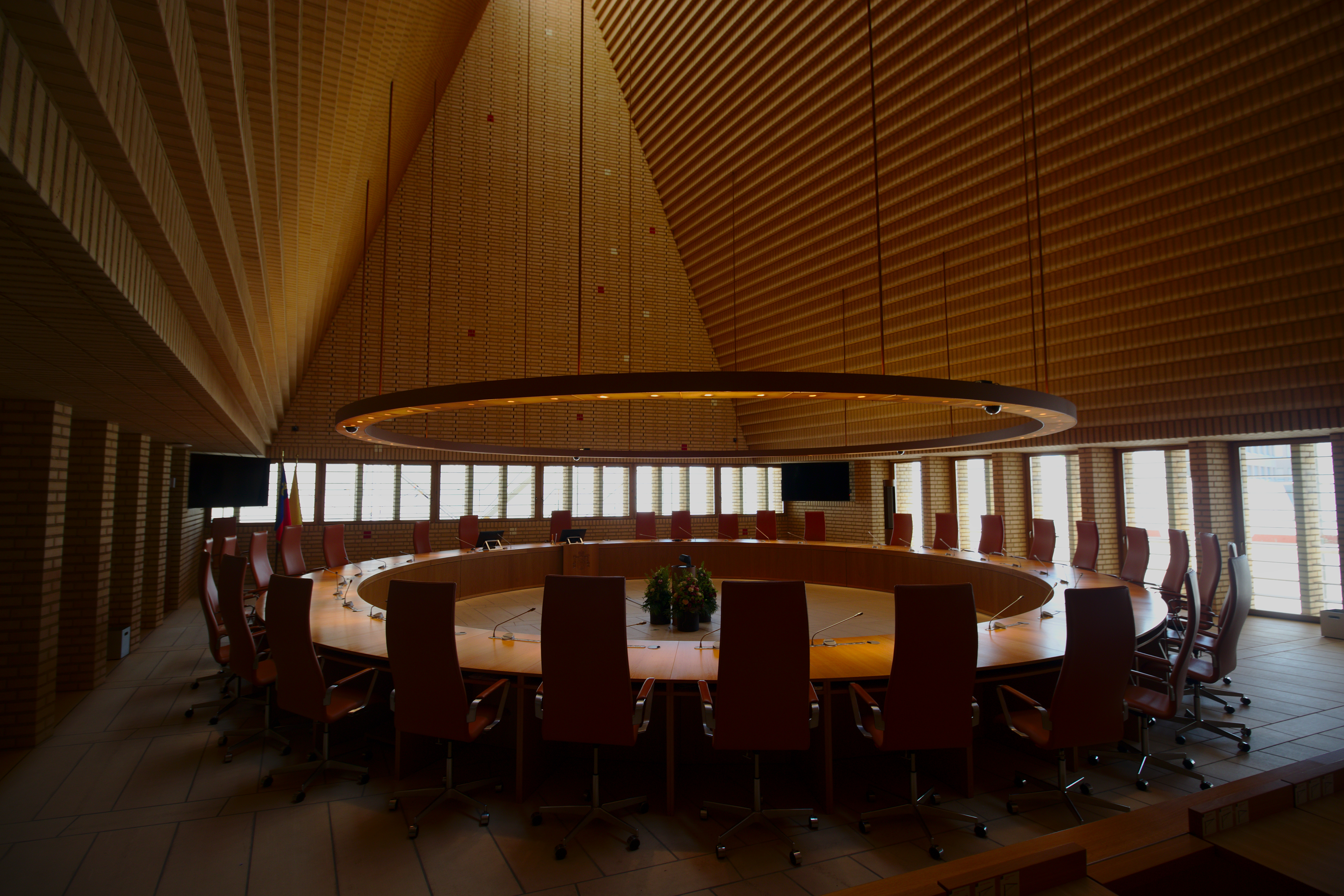 Landtag of the Principalty of Liechtenstein in Vaduz (building known as “Hohes Haus”)